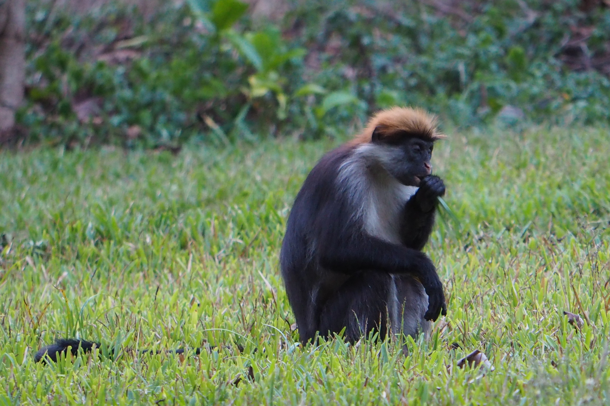 Uzungwa red colobus (Procolobus gordonorum)